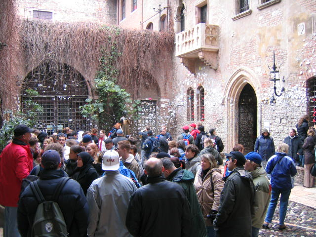 en This picture shows the Casa di Giulietta (house of the Juliet, Verona, Italy). In the background are the statue of the juliet and her balkony. de Dieses Bild zeigt die Casa di Giulietta (Haus der Julia, Verona, Italien). Im Hintergrund sind die Statue der Julia und ihr Balkon zu sehen.